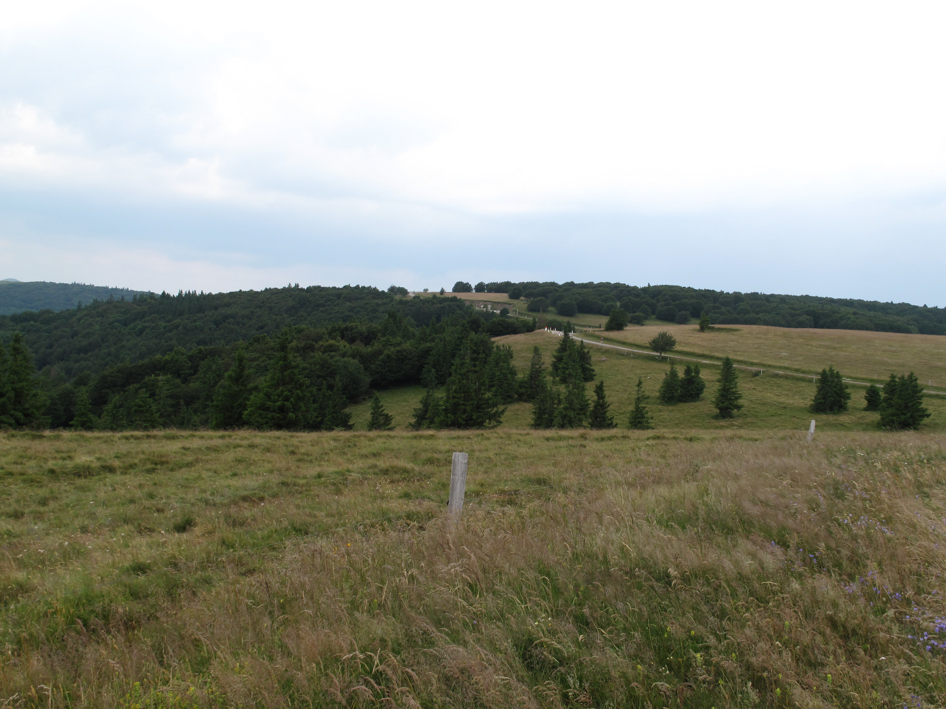 near Oderen, panorama close to le Markstein